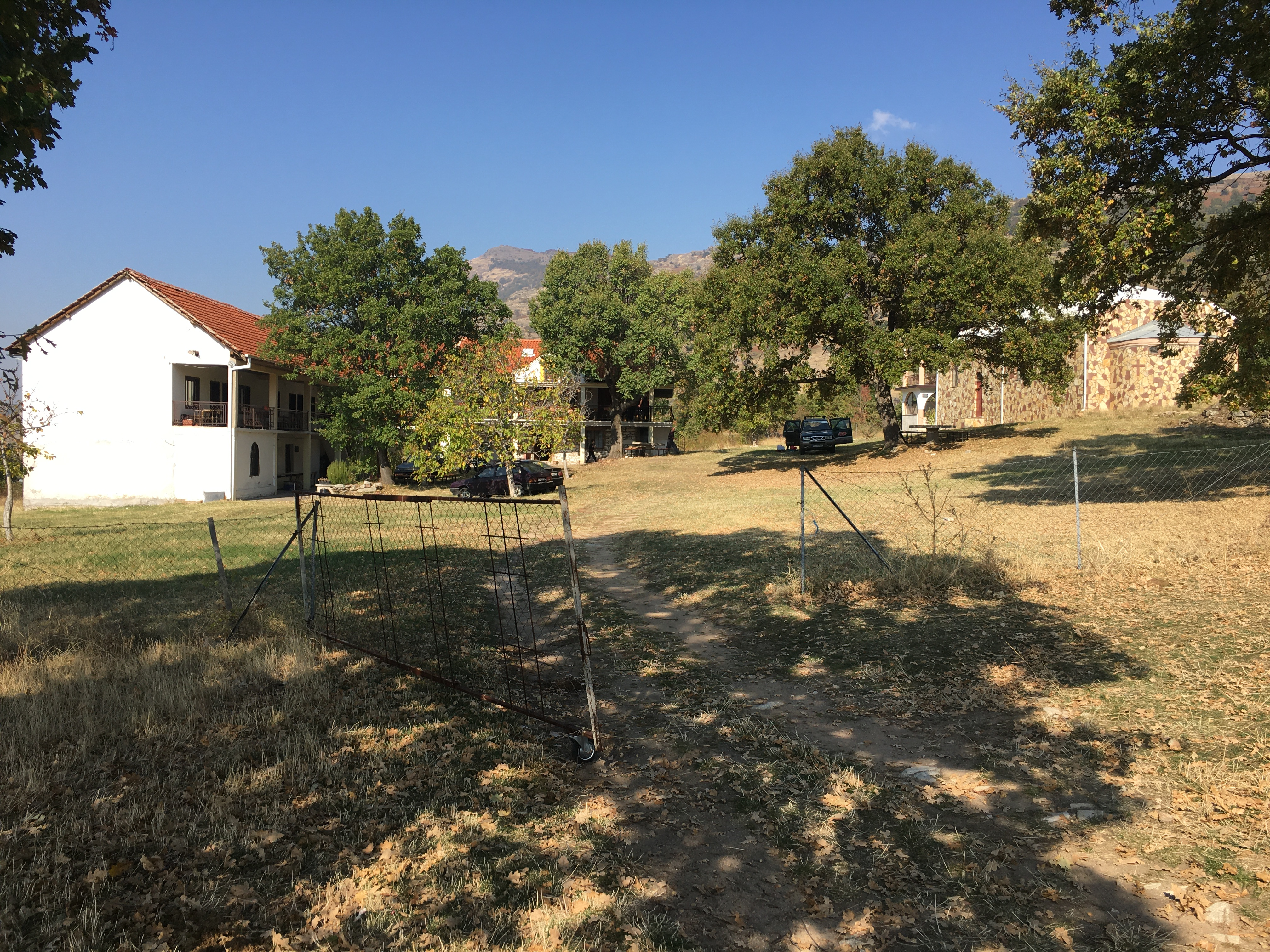 Nebregovo Monastery